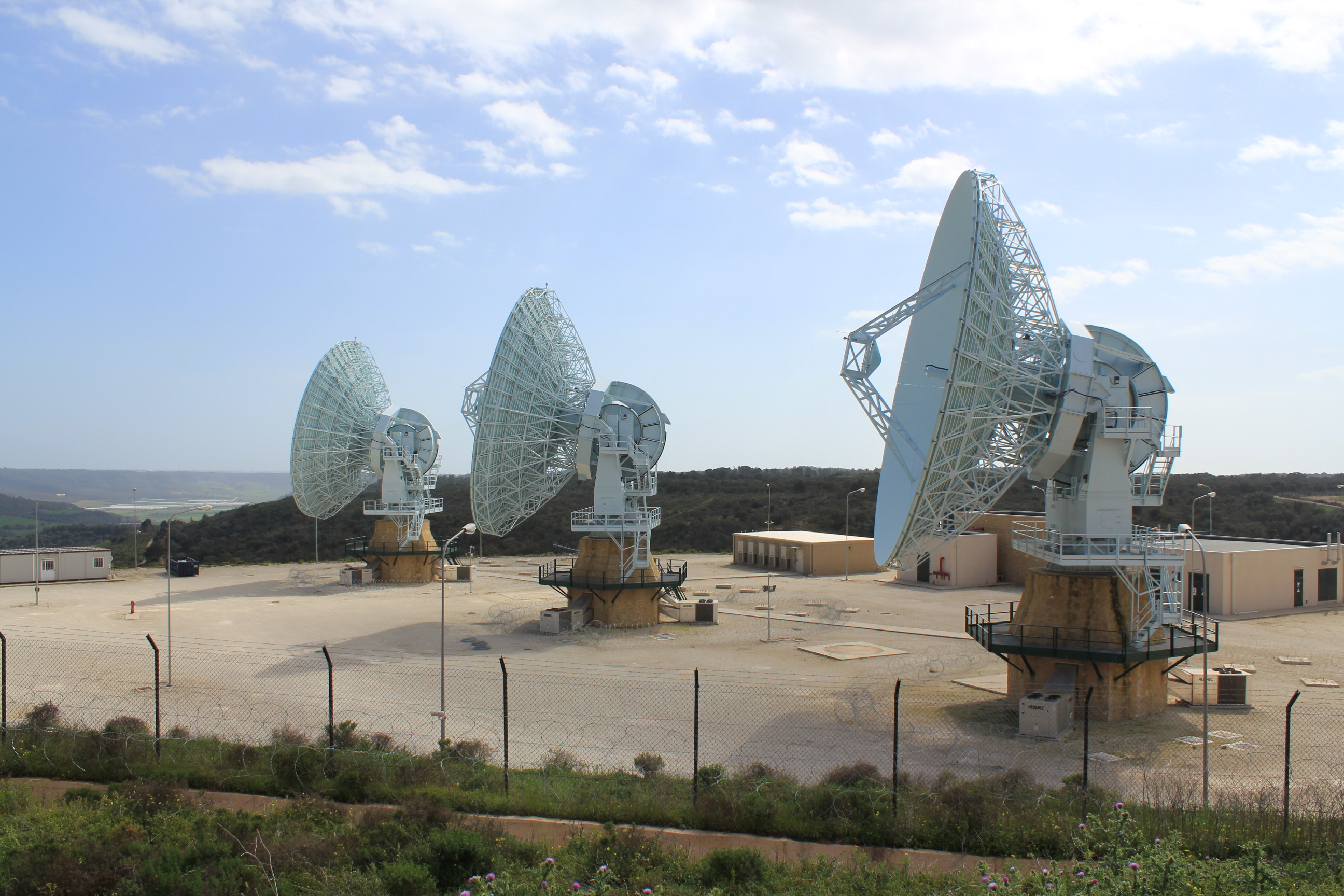 US Navy Mobile User Objective System (MUOS) Earth Terminal Facility at NRTF Niscemi. This ET Facility is unique, located in a Natural reserve the antenna's parabolic dishes were painted sky blue, and the antenna pedestals were covered in natural stone from to help blend into the natural beauty of the surrounding Sicilian countryside.